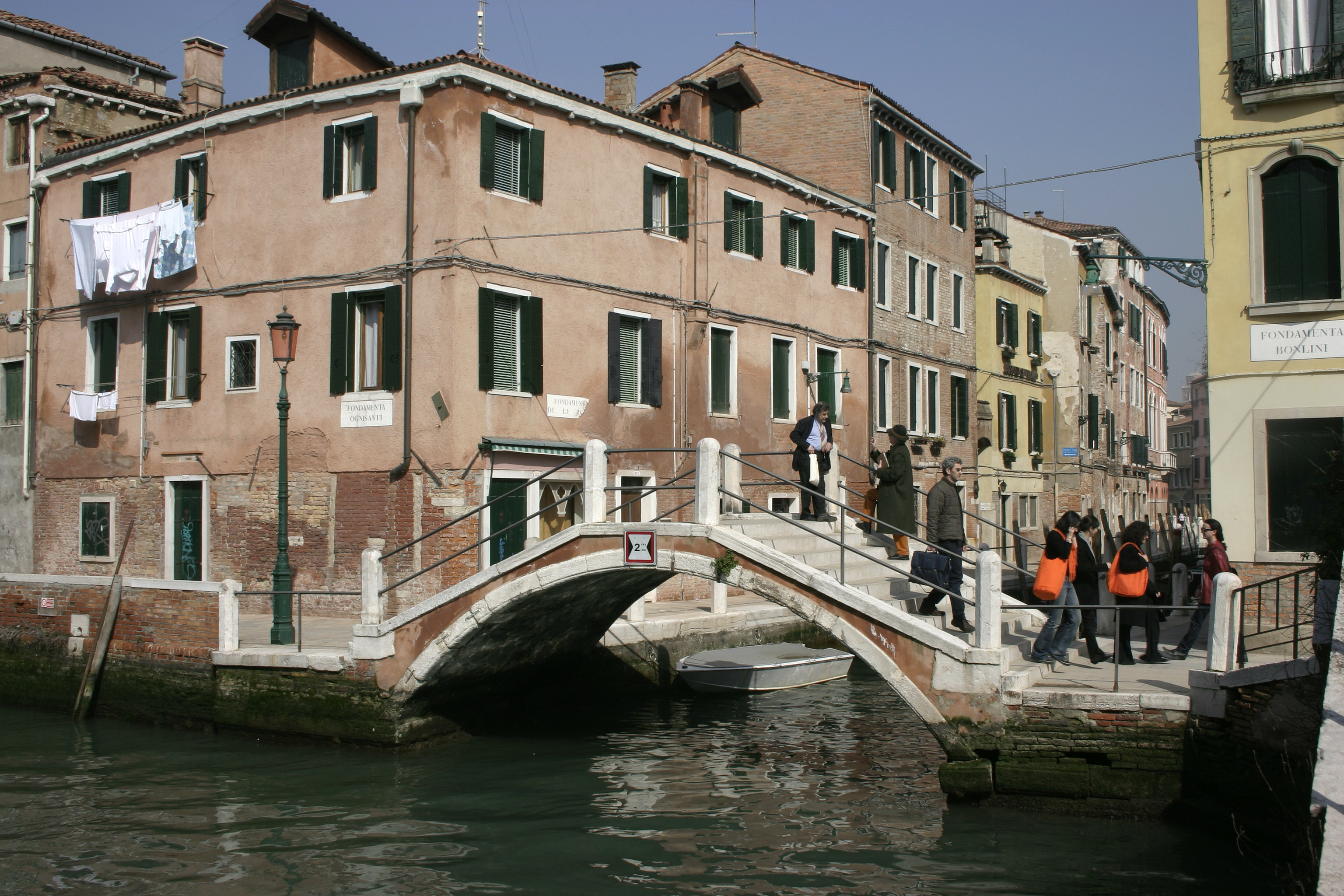 Venice - Ponte de Borgo